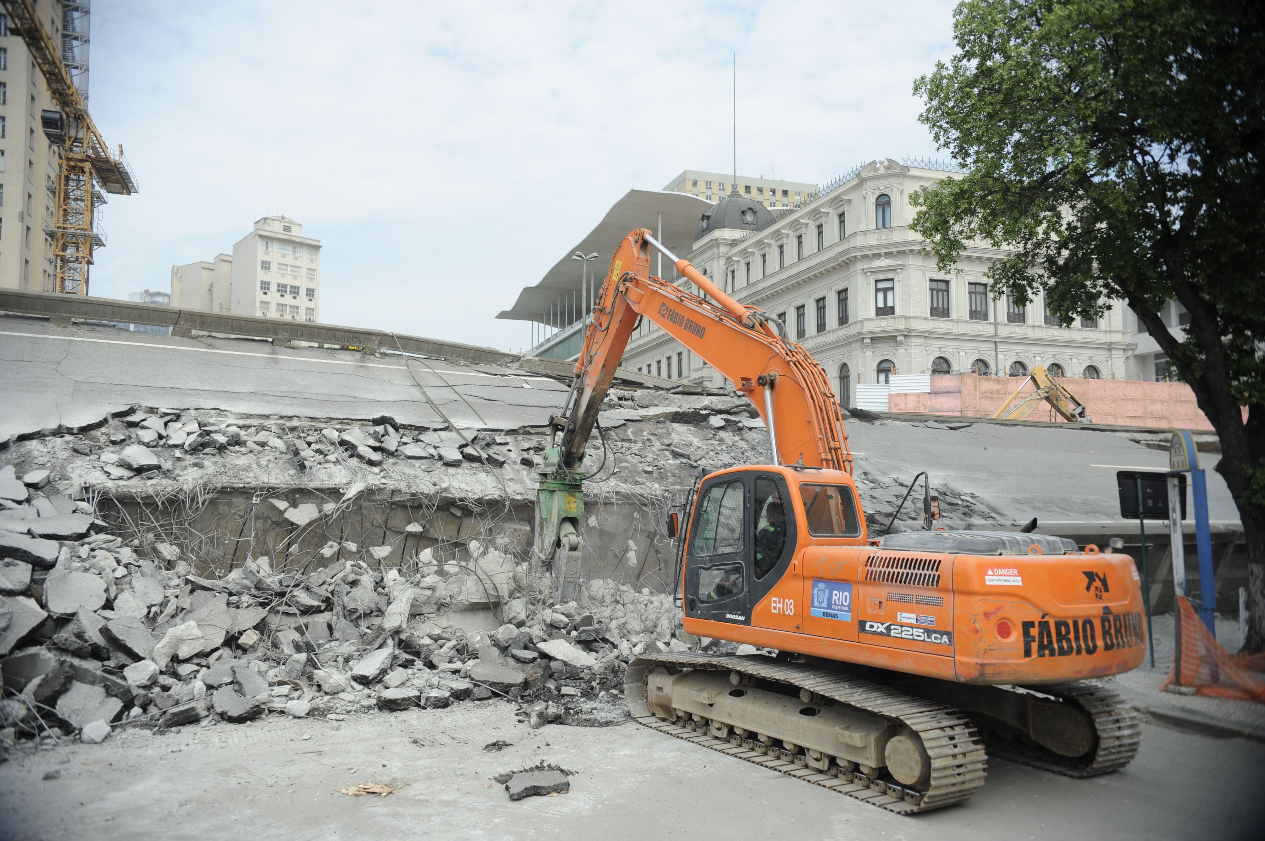 Demolition of Elevado da Perimetral in Rio de Janeiro. Photo by Tânia Rêgo/Agência Brasil - CCBY3.0 license